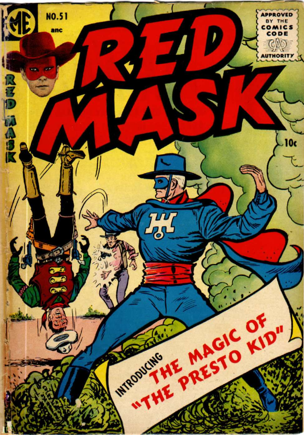 first appearance of Presto Kid Red Mask # 51 (September-October 1955)